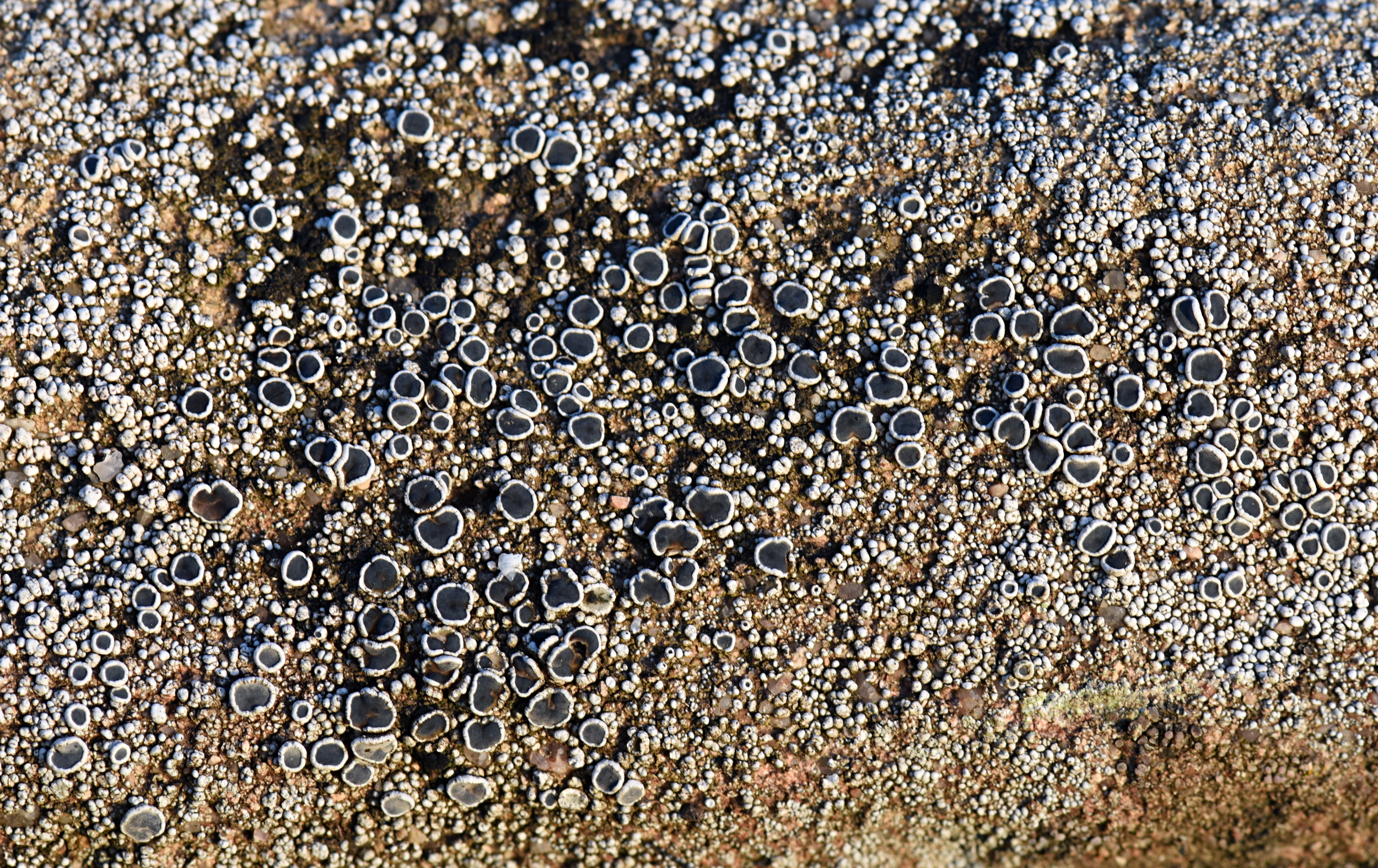 A lichen from the genus Lecanora. Found at Salt Point State Park, California on Feb 13, 2015.